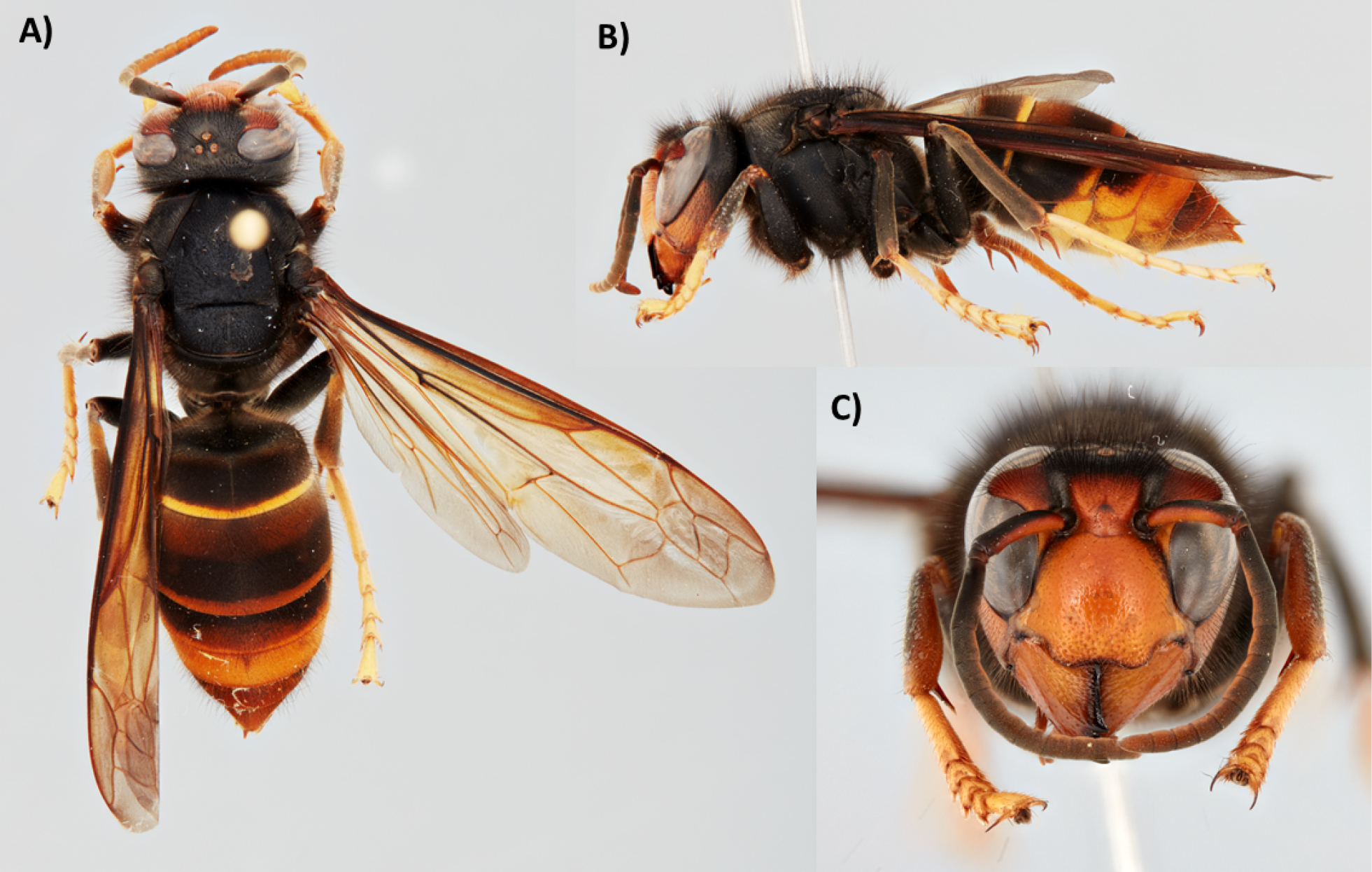 Figure 1; The specimen of Vespa velutina collected in Hamburg A dorsal view B lateral view C frontal view.